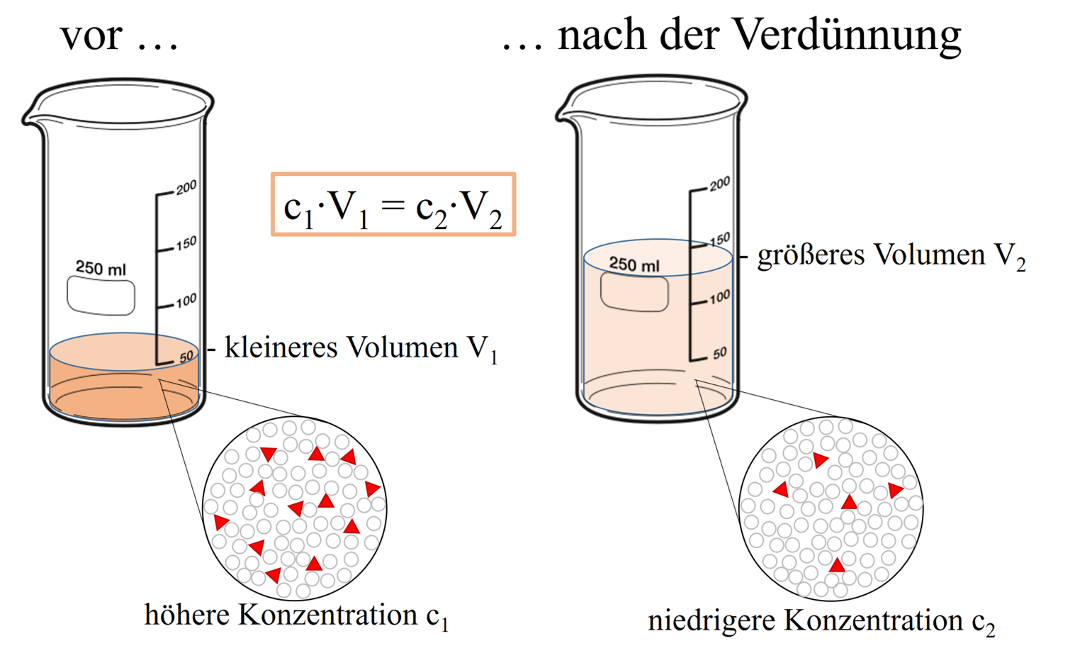 German translation of dilution.png